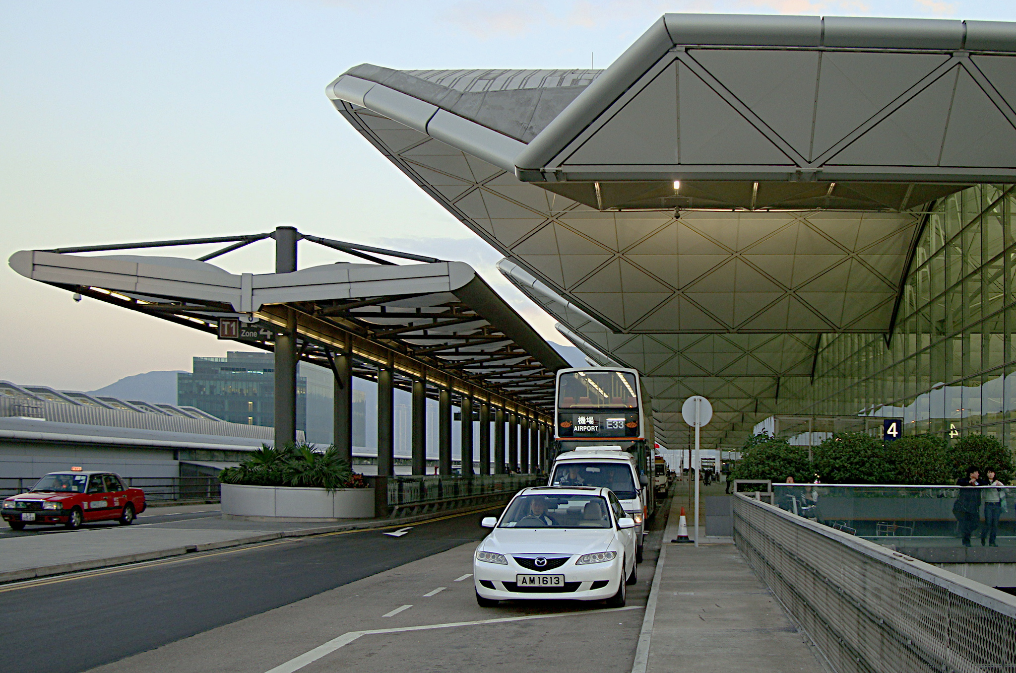 A side view of Hong Kong International Airport, Hong Kong